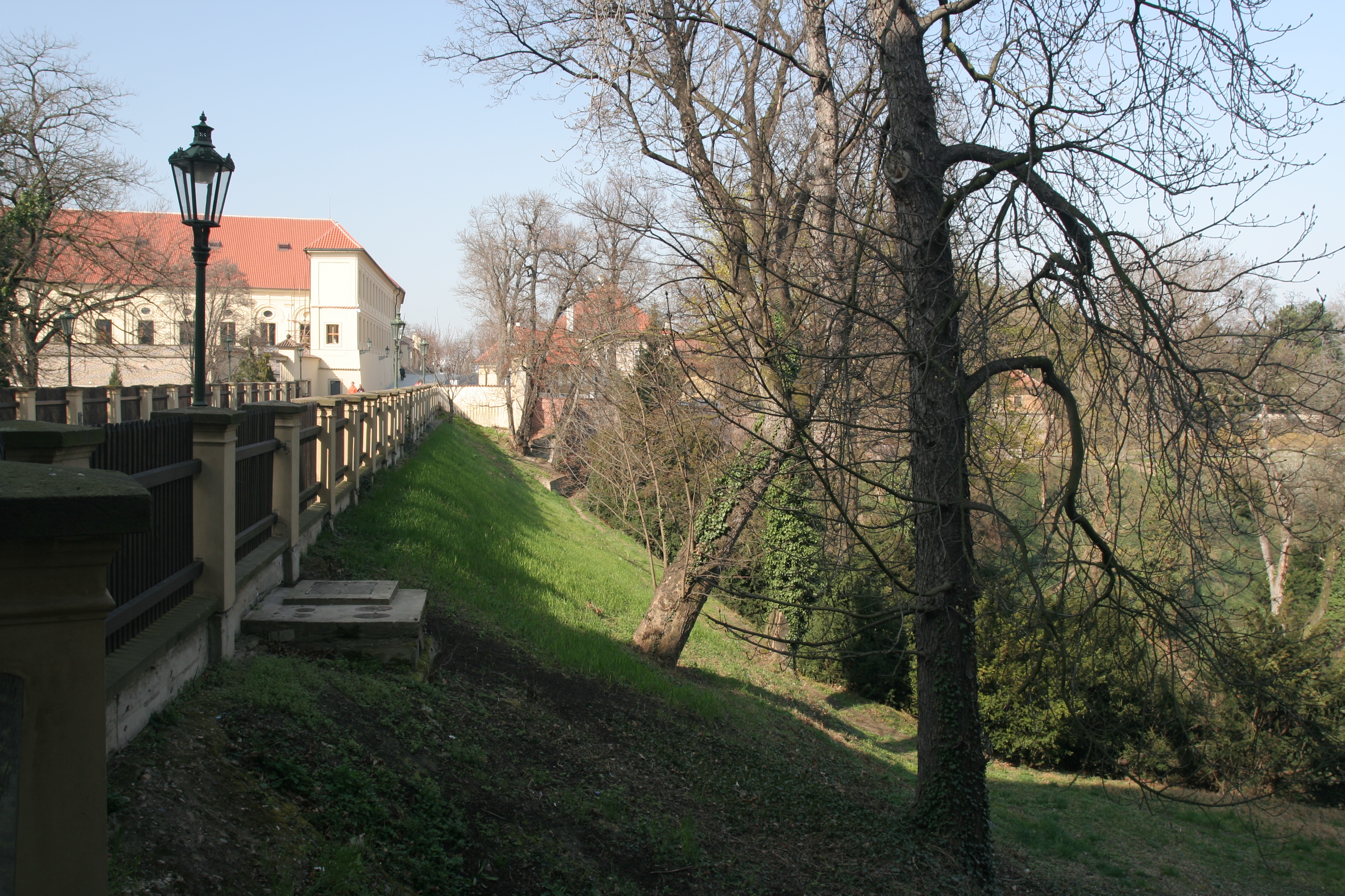 Prašný most, a former bridge at the Prague Castle